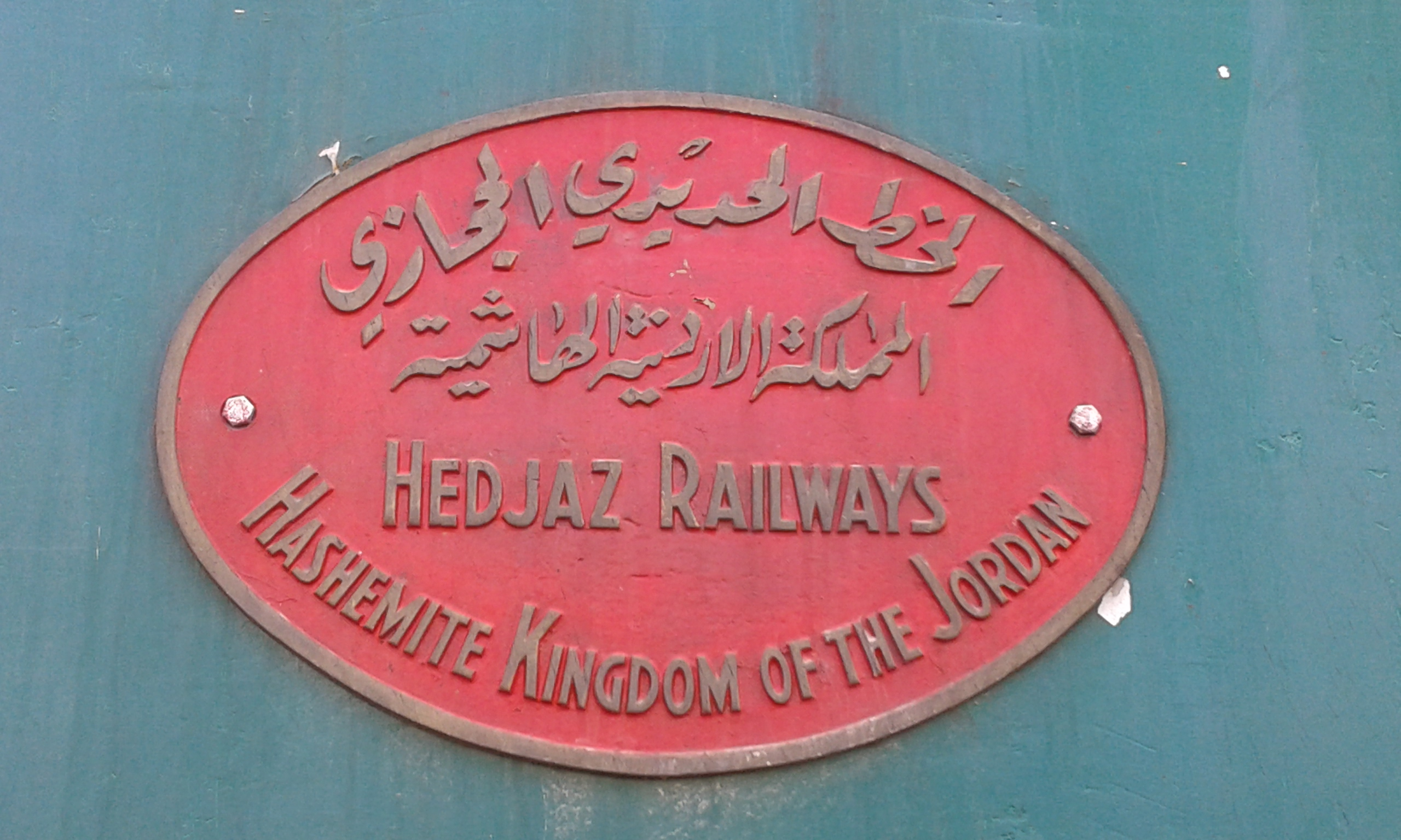 Label on locomotive 52 of Hejaz Jordan Railway, now out of service